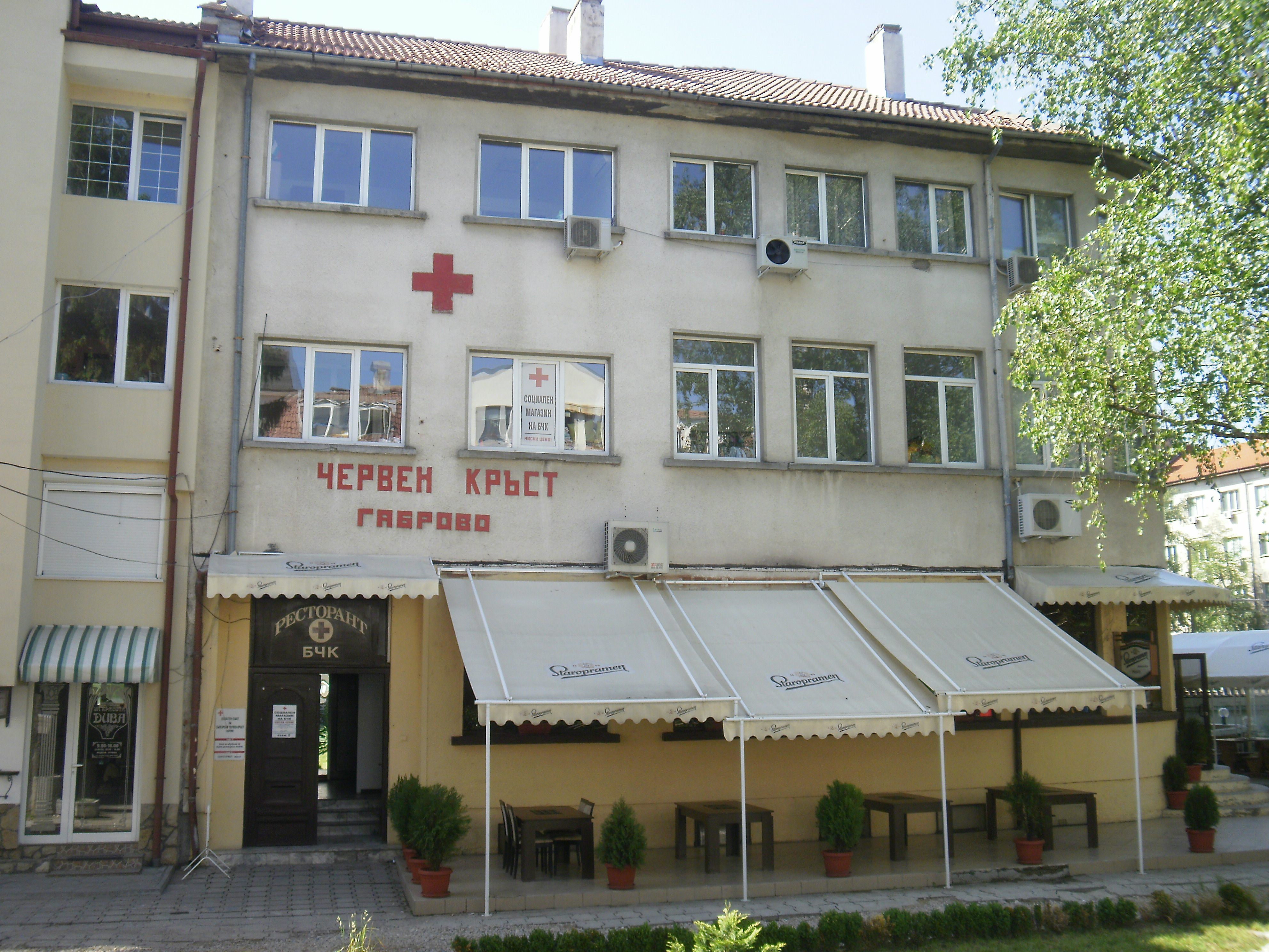 Gabrovo District Council of the Bulgarian Red Cross